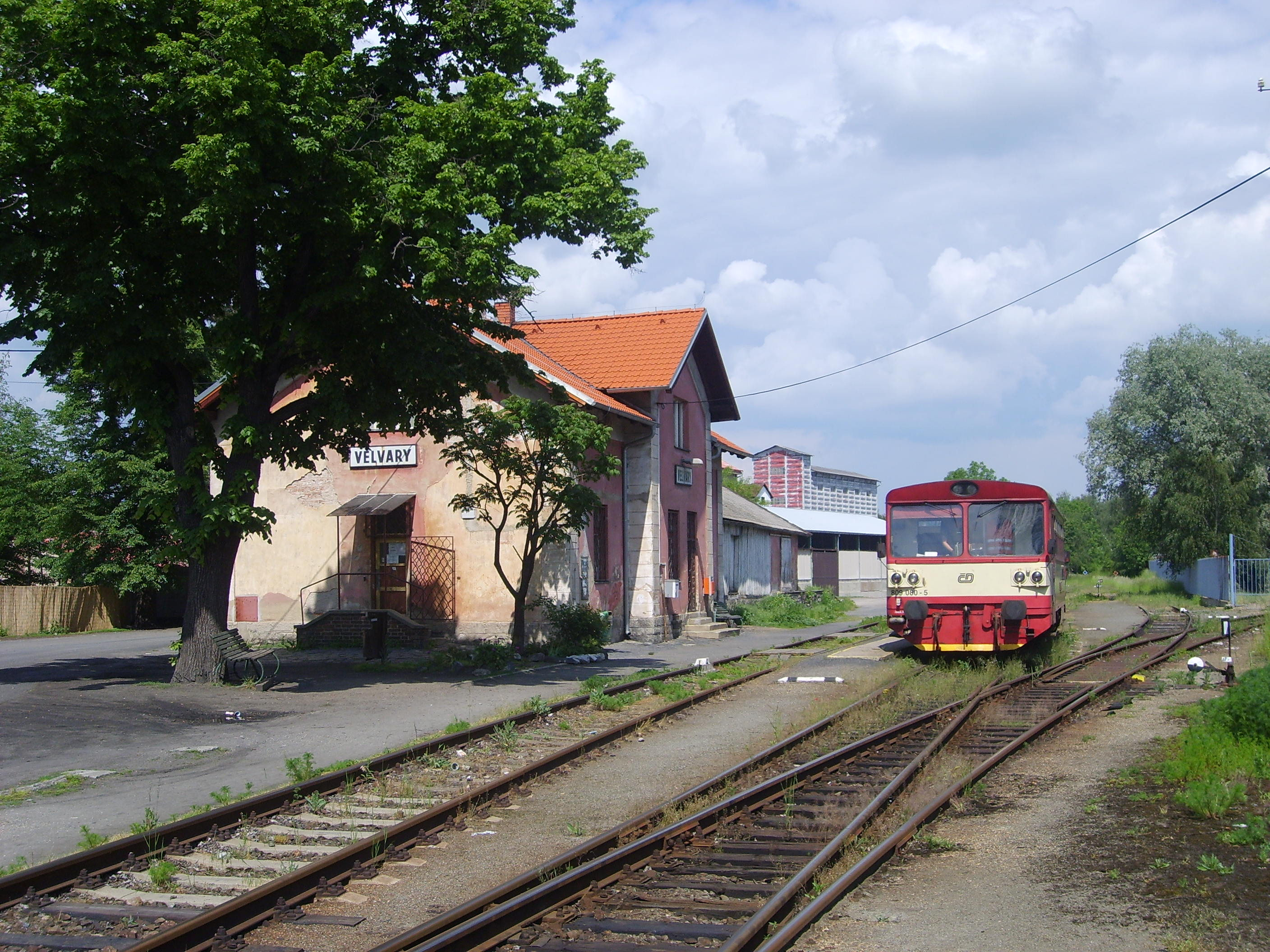 Train station in Velvary with diesel multiple unit 809, Czech Republic.